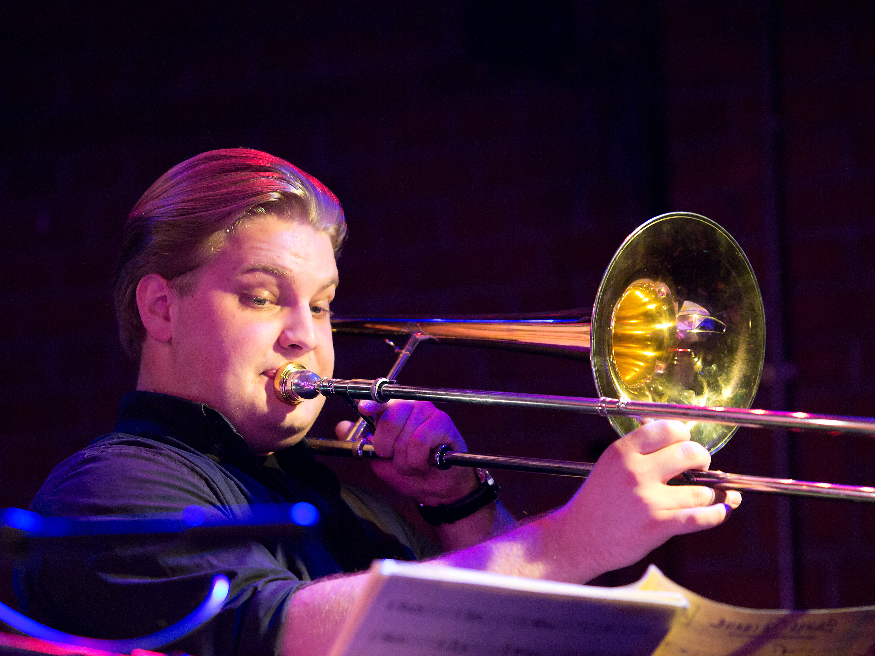 Roman Sladek, Jazz trombonist; Picture taken in Jazz Club Unterfahrt, Munich/Bavaria